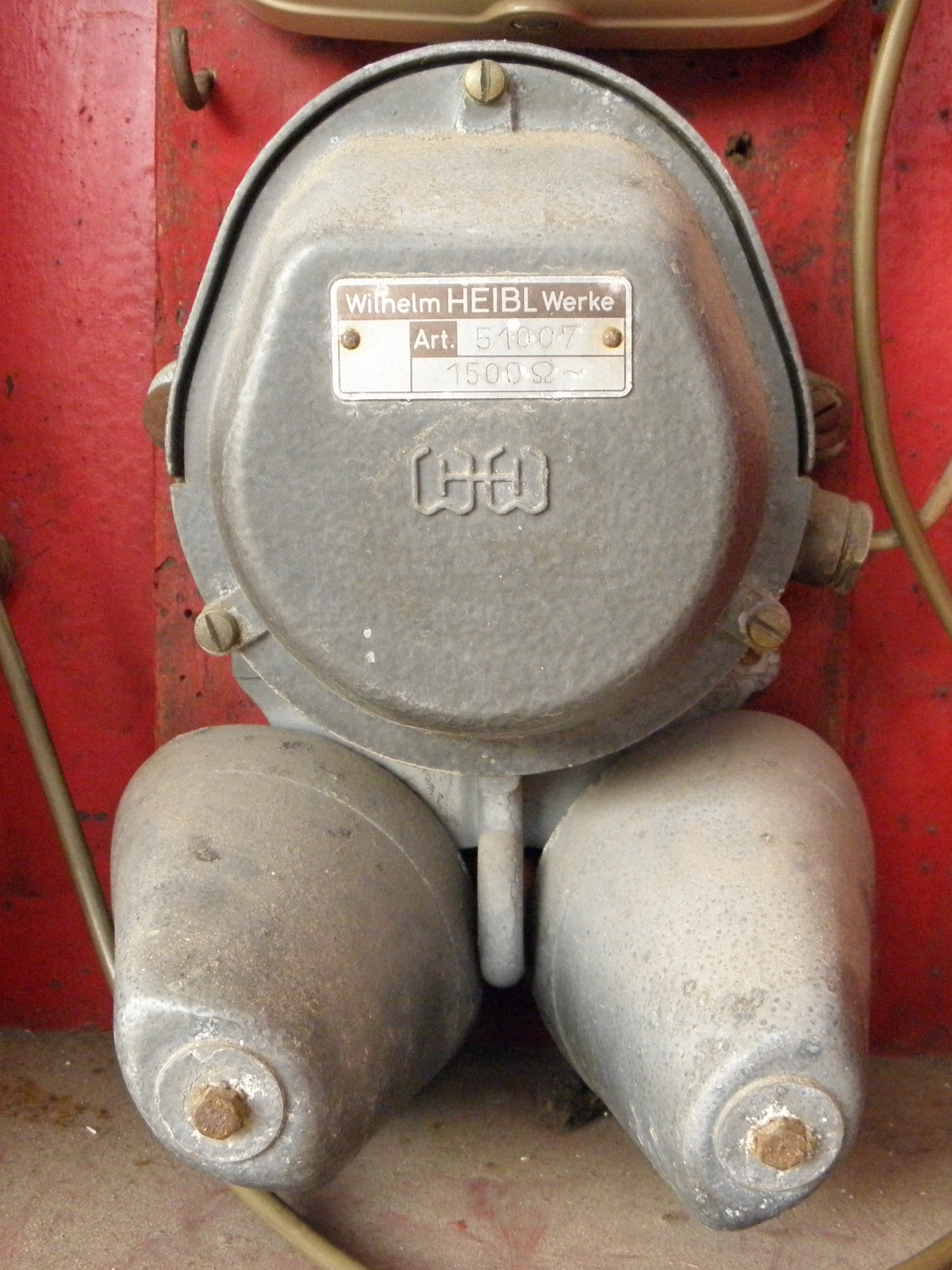 Extension bell manufactured by german Wilhelm Heibl Werke in italian telephone network use.